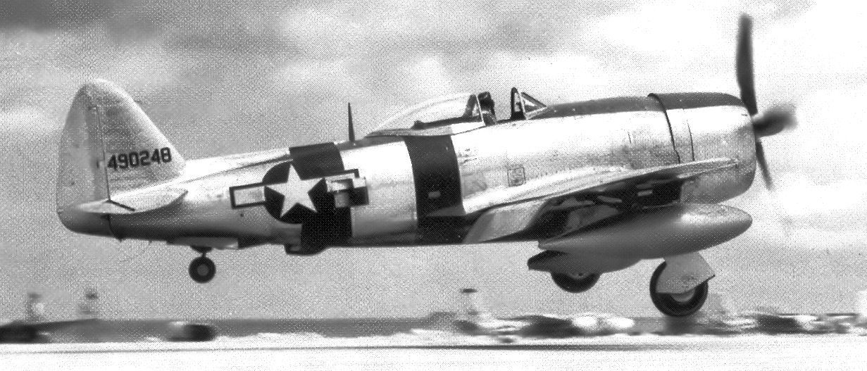 16th Fighter Squadron Republic P-47D-30-RA Thunderbolt, 44-90248, 1946 Naha Air Base, Okinawa